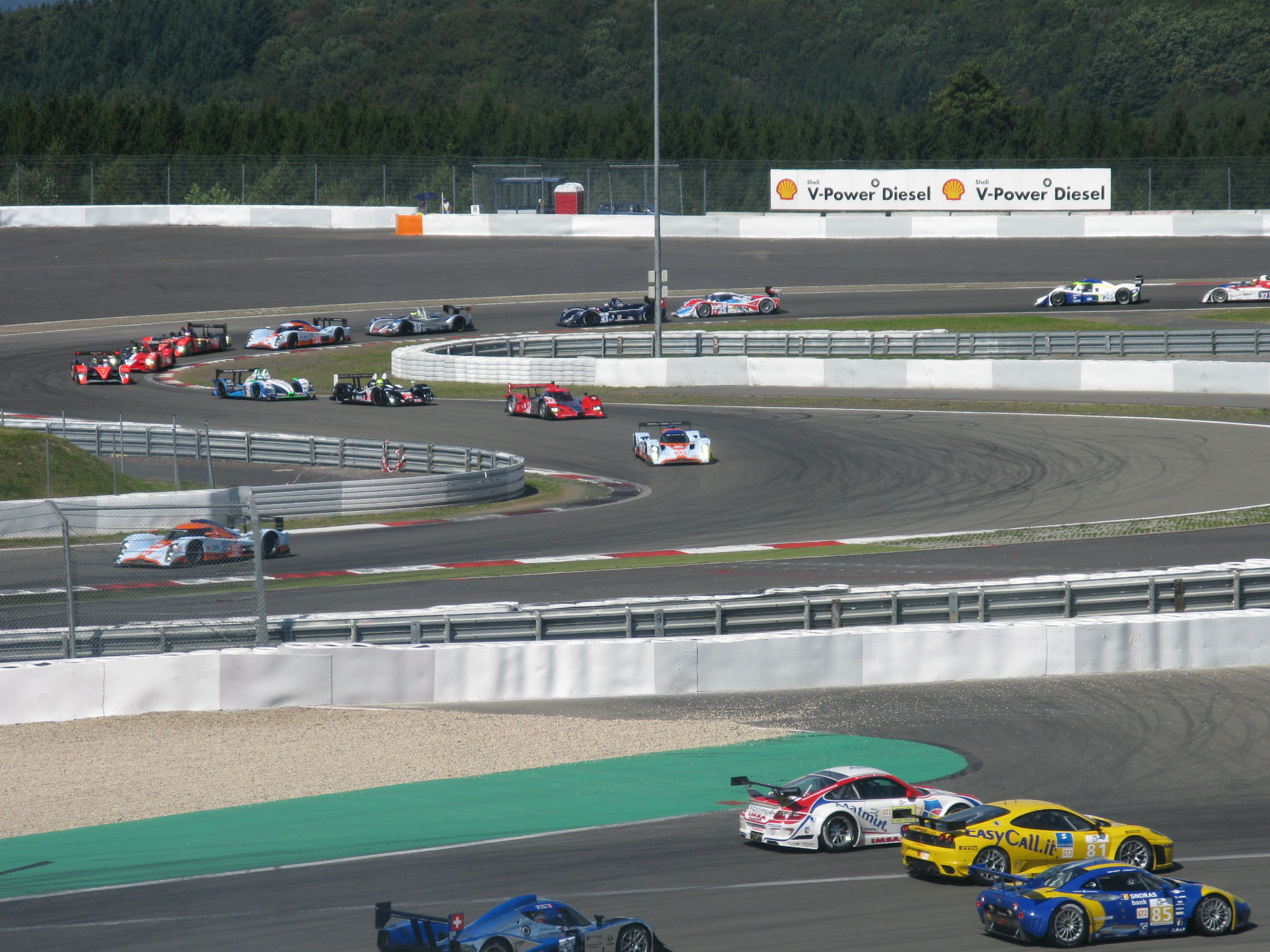 2009 1000 km Nürburgring.